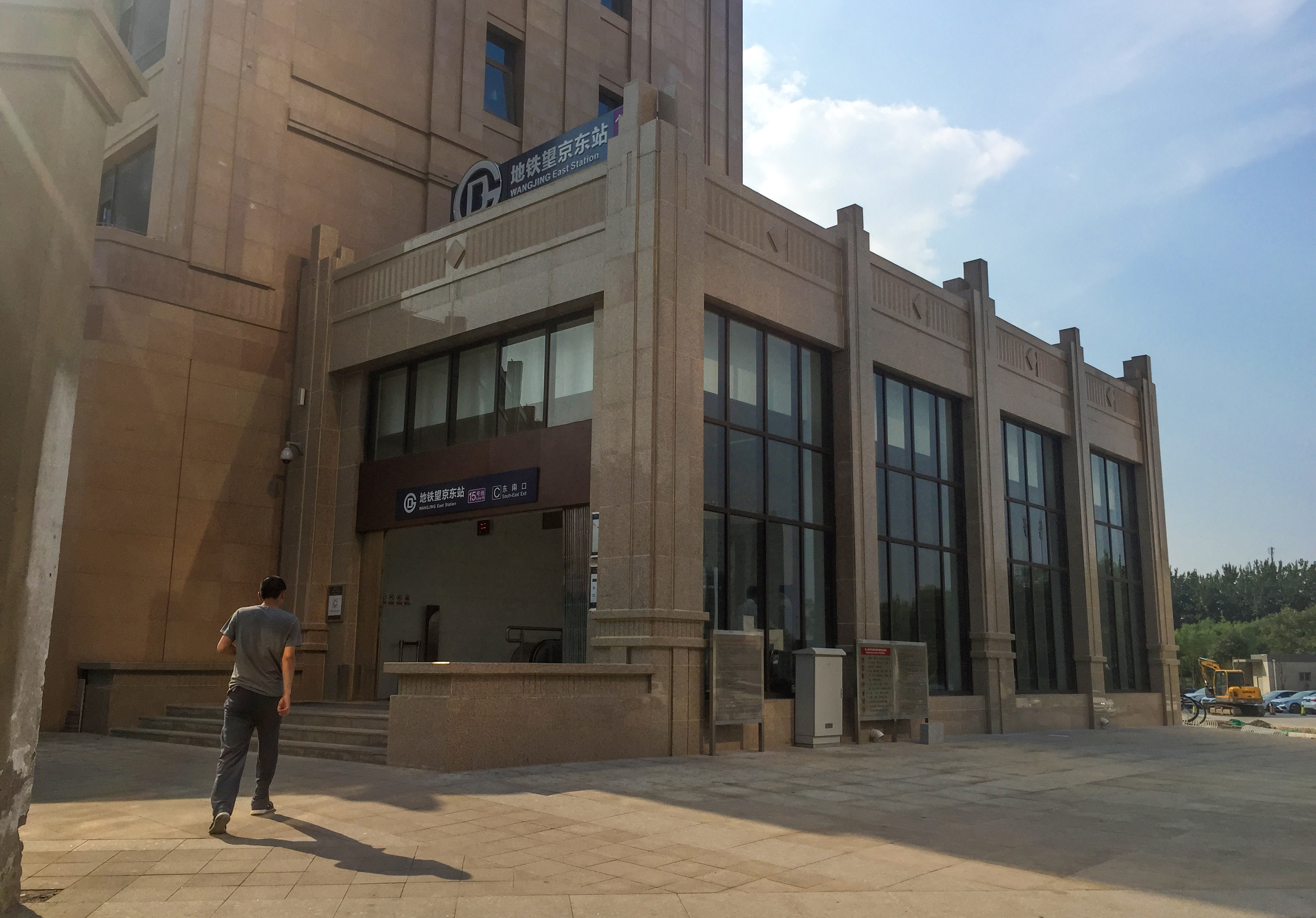 Actually in the area of Cuigezhuang.